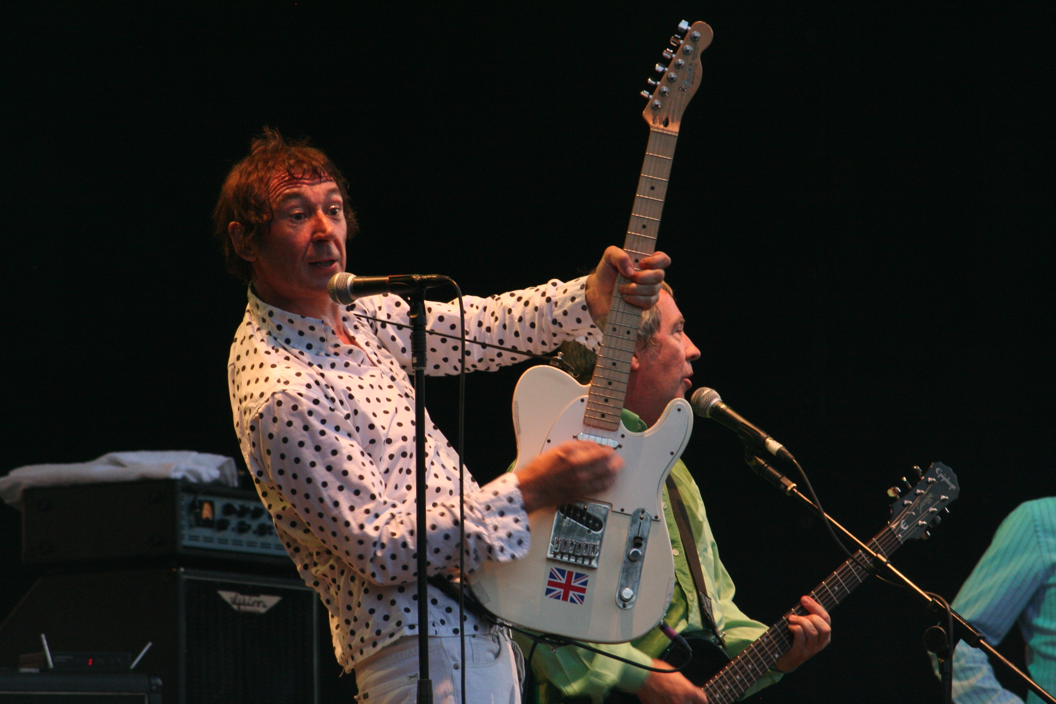 Steve Diggle, Buzzcocks; Cropredy Festival, August 13 2009